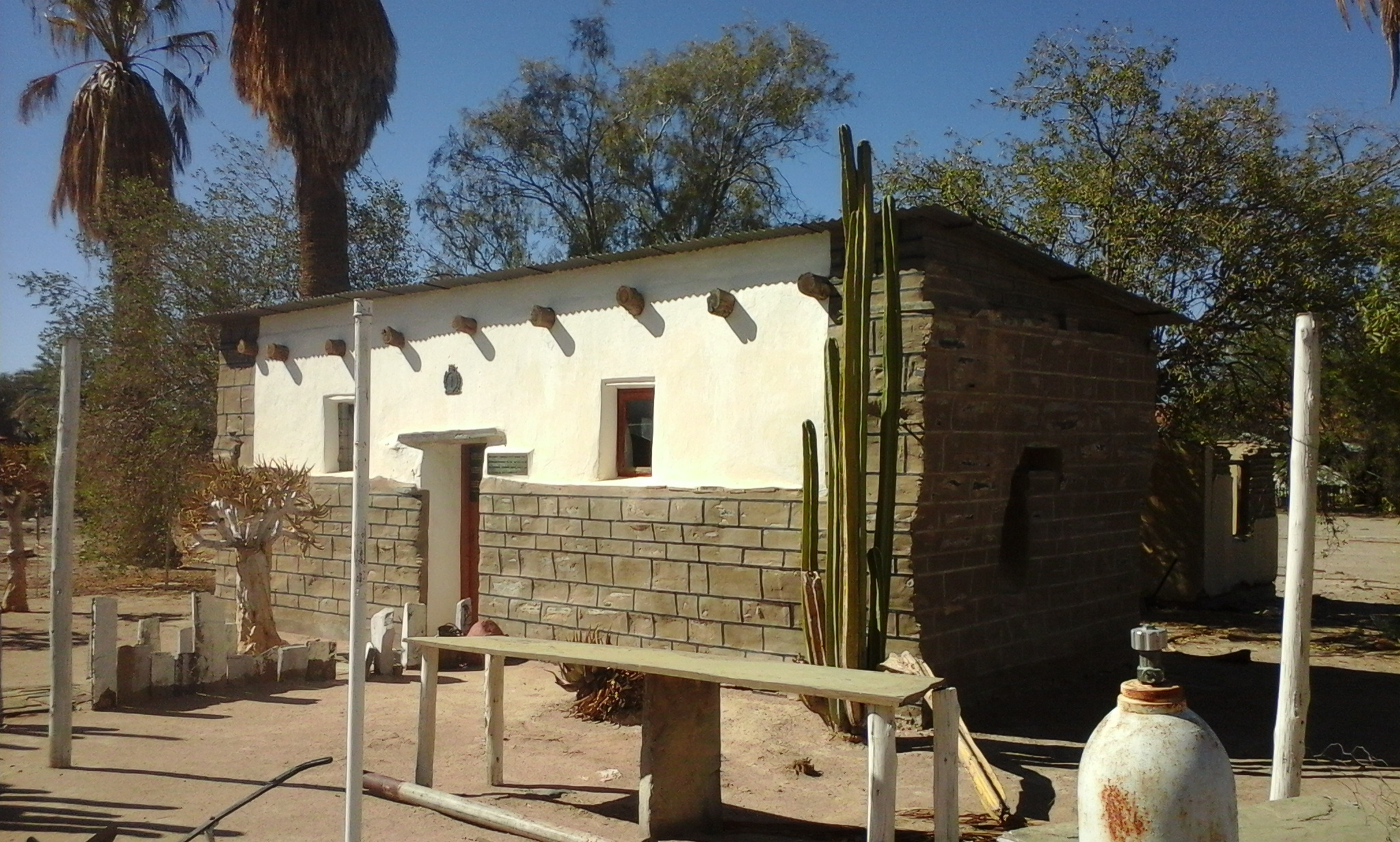 The Schmelen House in Bethanie, long considered the oldest building in Namibia